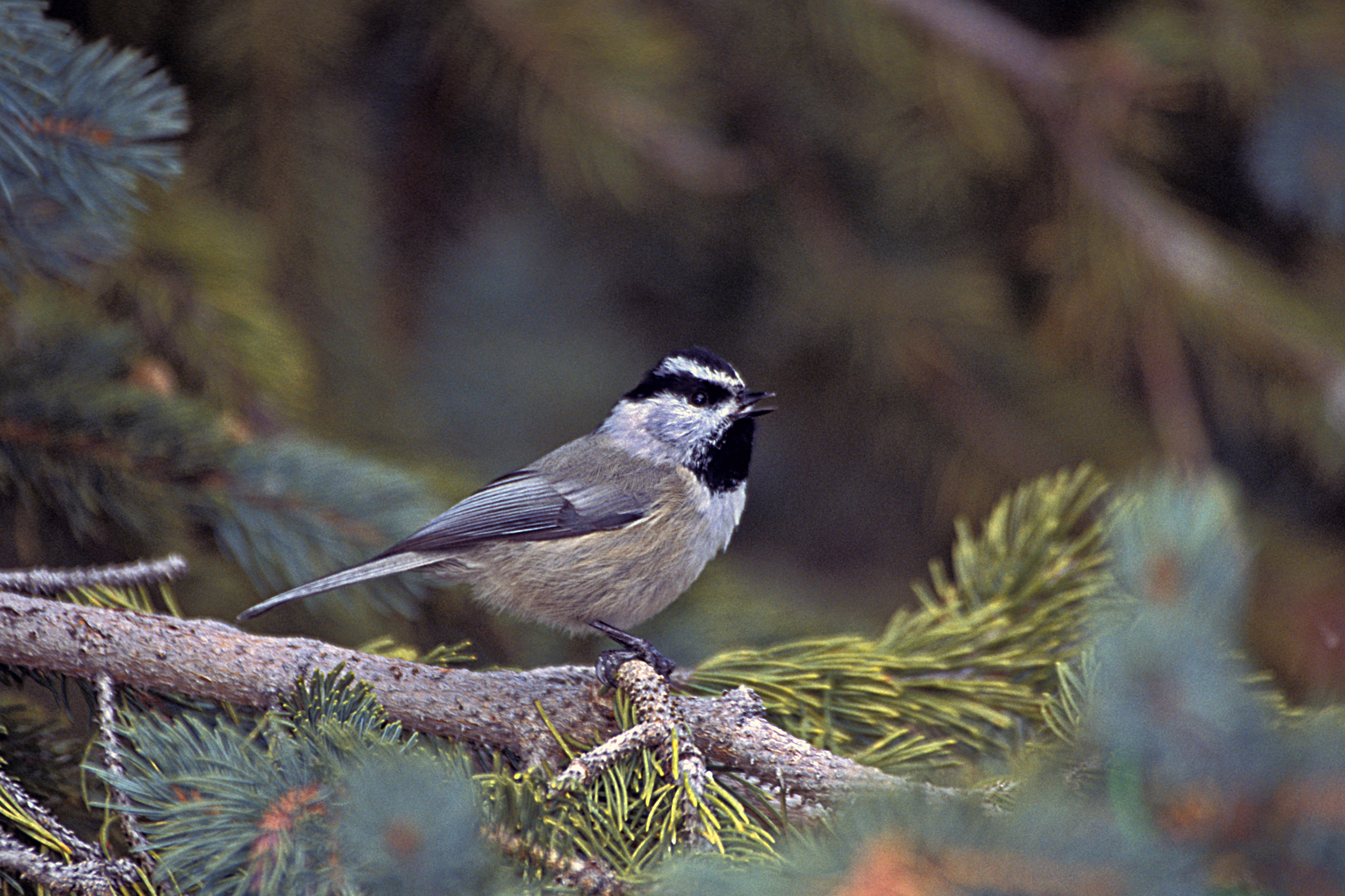 This bird ranges from 7,300 feet in my backyard up the mountains to about 11,000 feet in the Sangre de Cristos, Rocky Mountains, near Santa Fe, New Mexico.